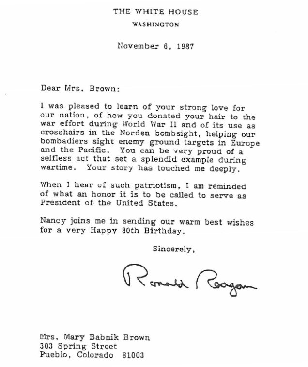 Reagan letter 11 06 1987 to Mary Babnik Brown